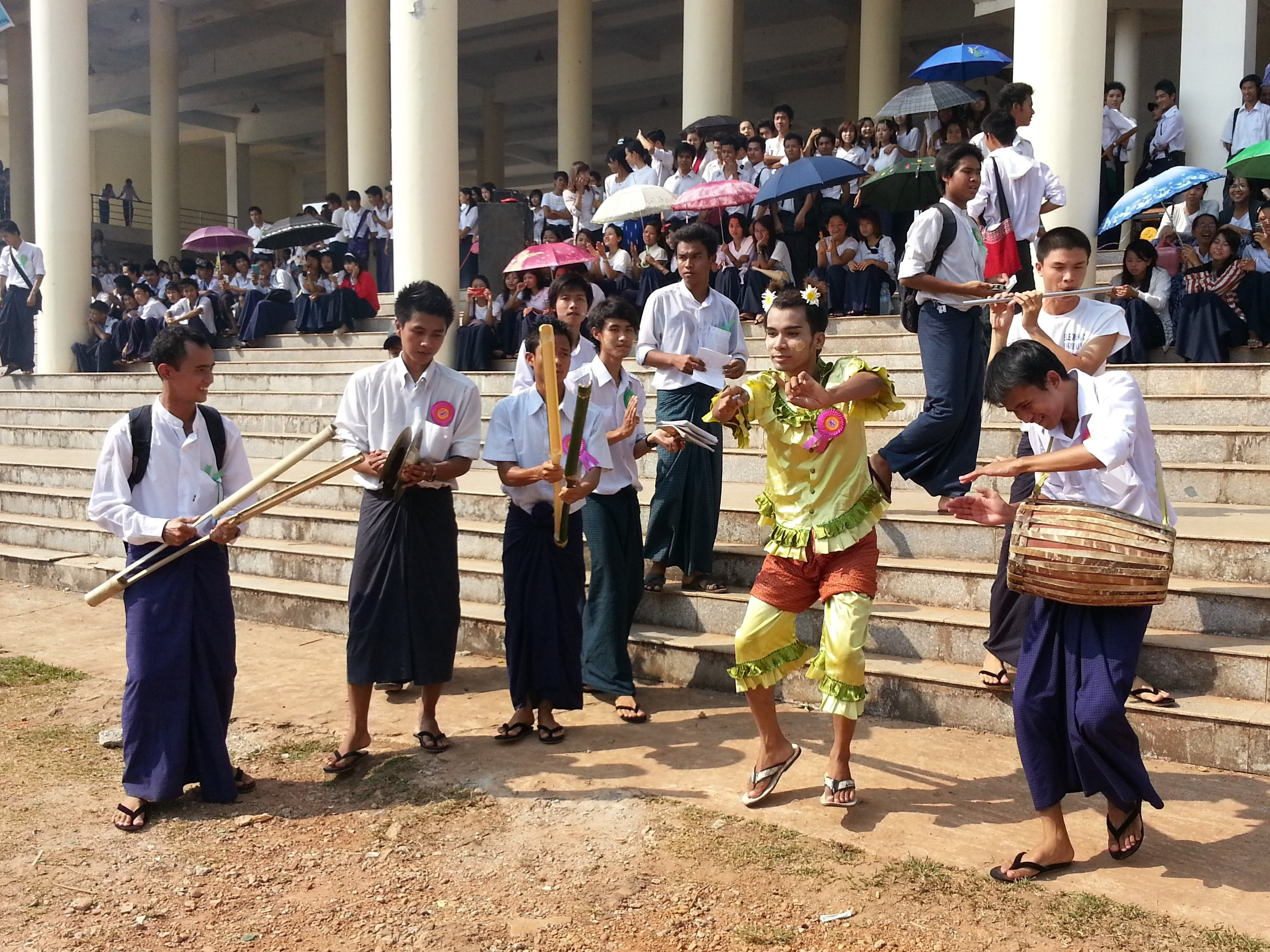 Dancing Tha Nge Taw with Doe Pat Music Team, Technological University Mawlamyine, Mon State မြန်မာဘာသာ: သူငယ်တော် အကနှင့် ဒိုးပတ်ဝိုင်း၊ နည်းပညာတက္ကသိုလ်(မော်လမြိုင်)၊ မွန်ပြည်နယ်